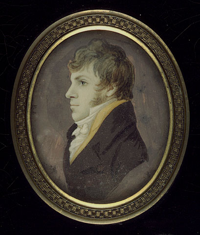 Simon McGillivray (1783-1840) was the son of Donald McGillivray and Anne McTavish (sister of Simon McTavish, fur-trade merchant). He first worked in the family’s business establishments, becoming a partner in McTavish, Fraser and Company of London in 1805, and then a partner in the Montreal firm of McTavish, McGillivray and Company in 1811. While in Canada, like his older brother William, he helped bring about the union of the Hudson's Bay and North West Companies in 1821. After the bankruptcy of his company in 1825, he worked in Mexico for a London mining company, returning to London in 1835. He then became an owner of the London Advertiser and the Morning Chronicle, marrying Anne Easthope, the daughter of a fellow business proprietor in 1837. It is known that Andrew Robertson painted two portraits of this sitter, but the author of this work remains uncertain. /